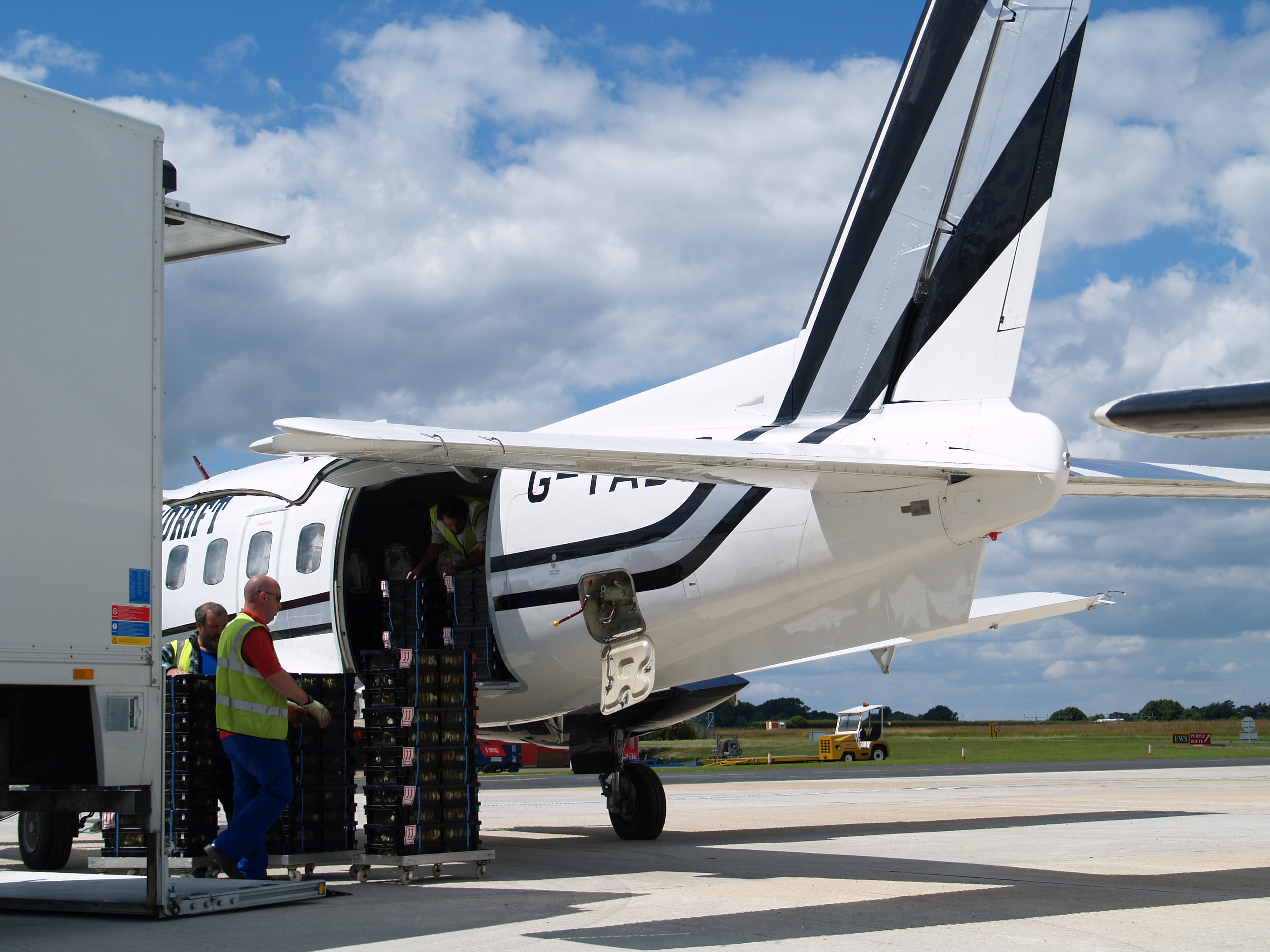 G-TABS at EGSH